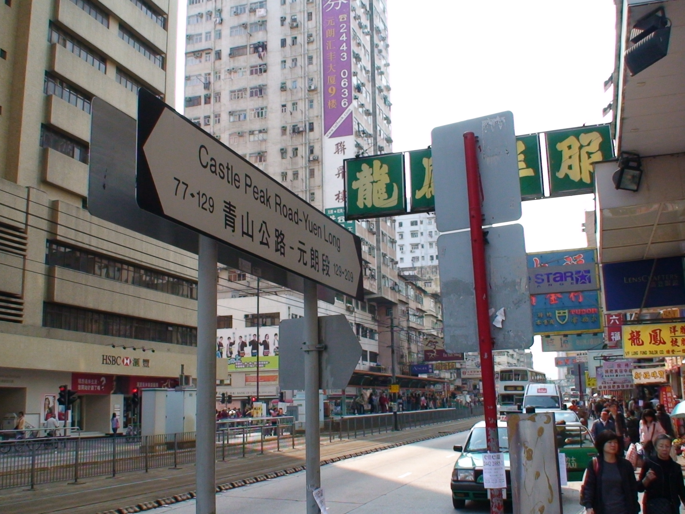 Castle Peak Road -Yuen Long (元朗大馬路) is the main road in Yuen Long, Hong Kong with road plaque shown.